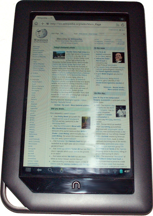 Barnes And Noble Nook Color Running CyanogenMod 7.1 and Dolphin Browser HD showing the Wikipedia index on 6/19/2012.